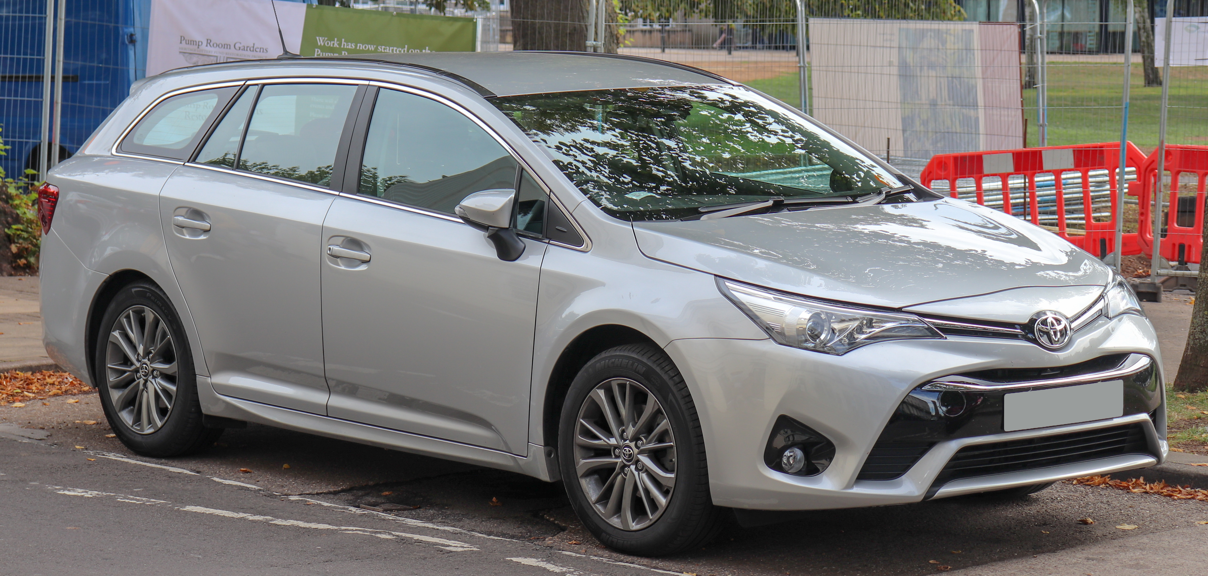 2018 Toyota Avensis Business Edition Valvematic facelift Estate 1.8 Front Taken in Leamington Spa